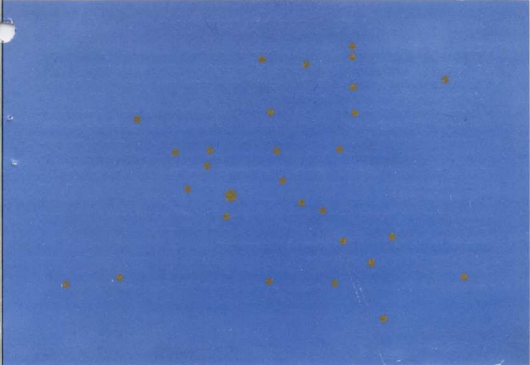 Old eu flag